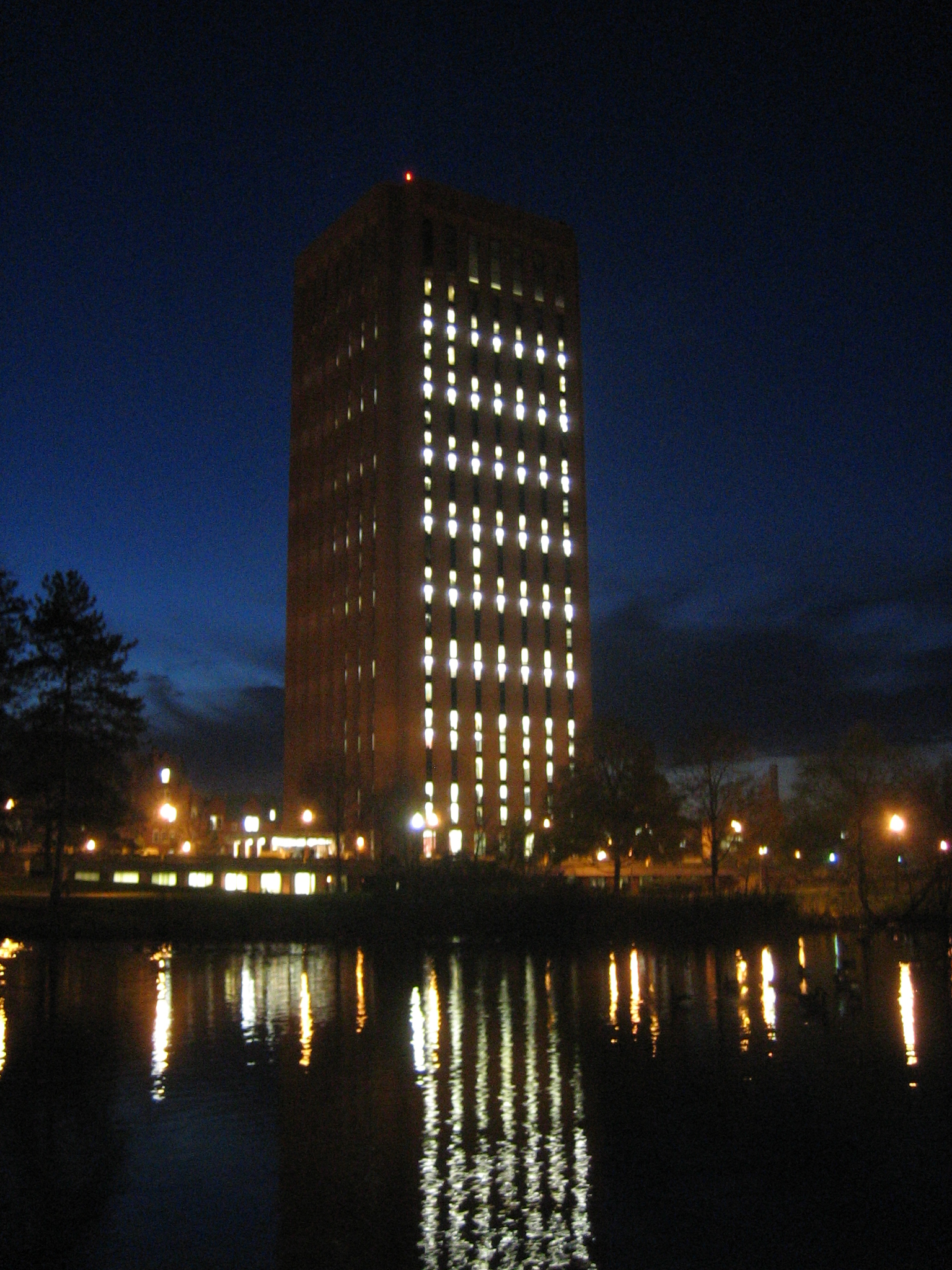 UMass at Amherst, W.E.B. Dubois Library at night